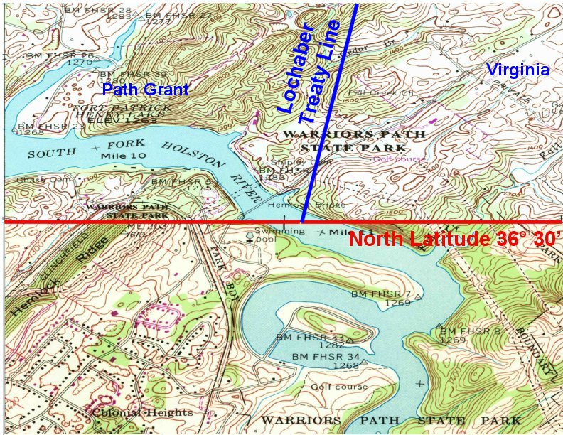 The red line is the Latitude 36° 30" line NC/Va border extended west by the Donaldson Survey. The Yellow line is the western Virginia border established by the Lochaber Treaty. That line extends northerly to the mouth of the Kanawa River at Point Pleasant on the Ohio River. The point of intersection in the middle of the Holston River is 6 miles upstream from the Long Island of the Holston. It is the corner of both the Path Grant and the Watauga Purchases of March 1775.